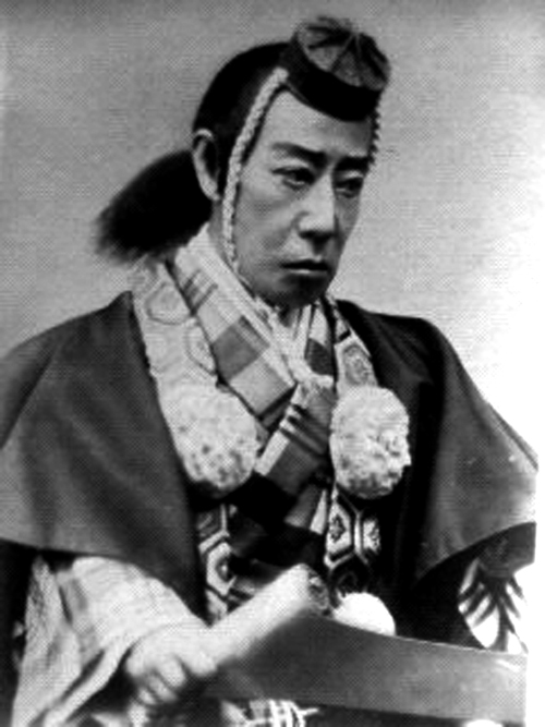 Danjūrō Ichikawa IX (1838–1903) as Benkei in the June 1894 Tokyo Kabuki-za production of Kanjinchō